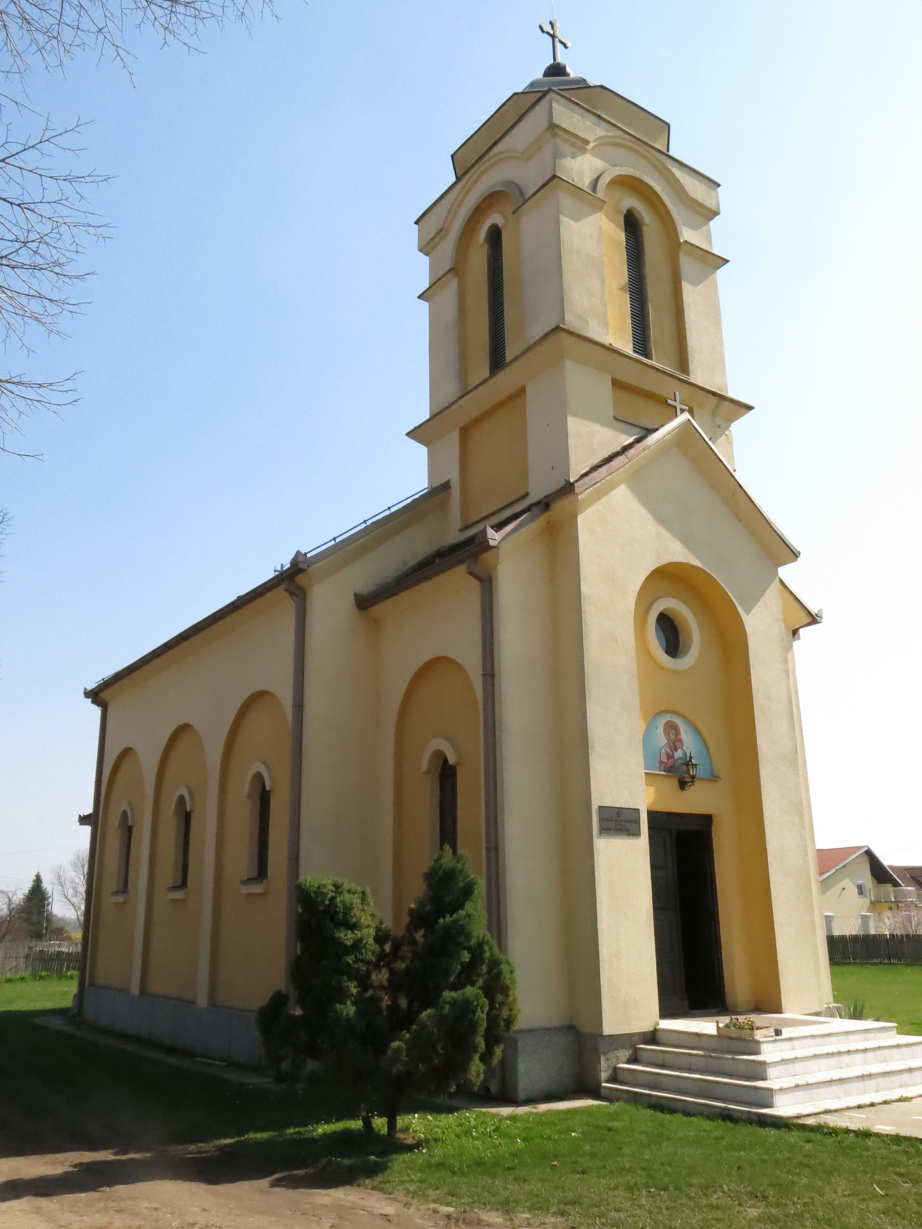 Provo, Church of Nativity of the Theotokos